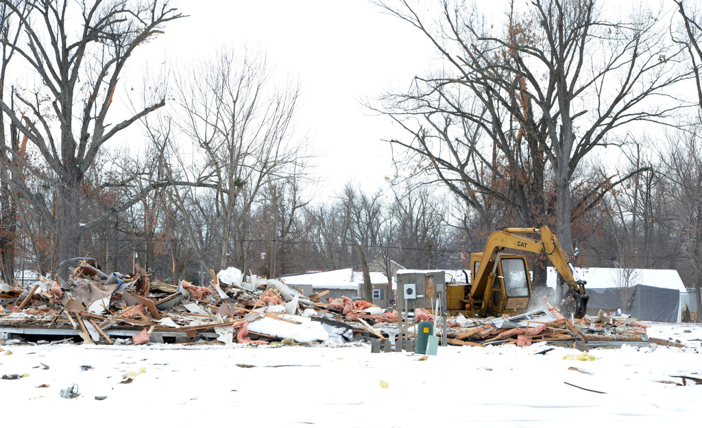 Snow fallen on tornado debris in Brookport, Illinois